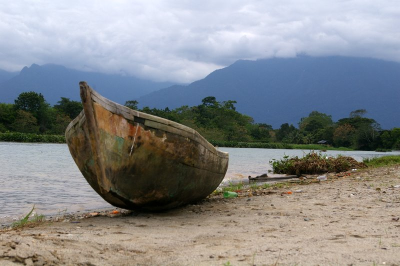 Small boat on the North Coast of Honduras